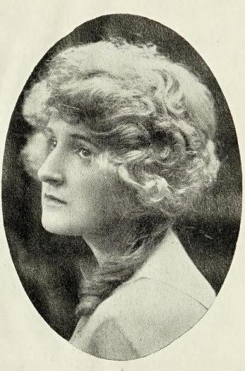 A white woman with voluminous blonde hair, seen in 3/4 profile inside an oval frame.